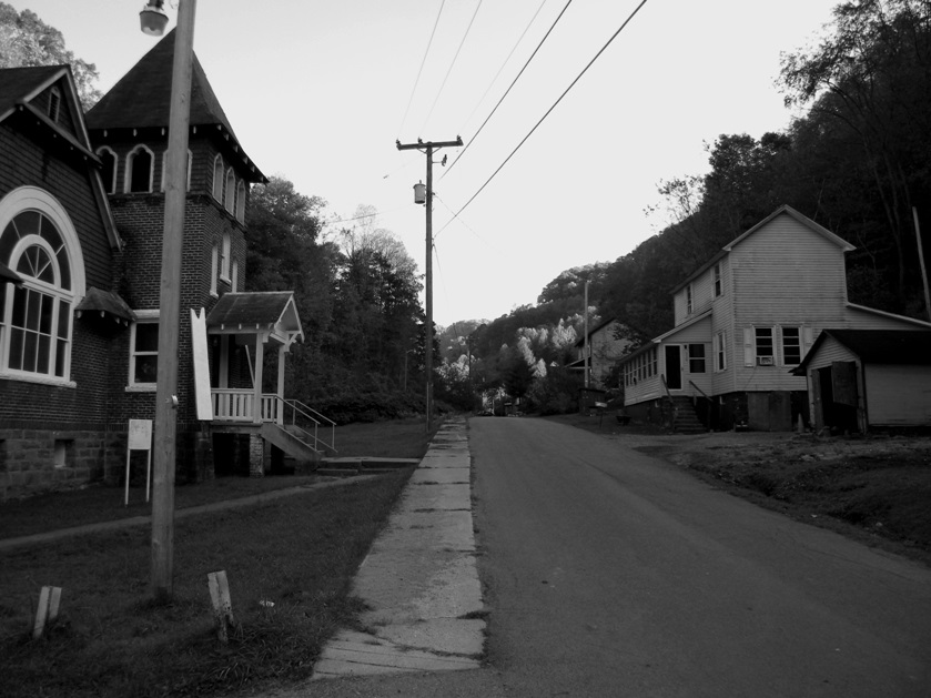 Street View Jenkinjones, West Virginia